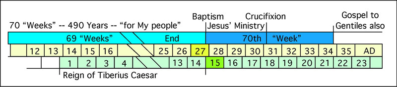 Chronology chart